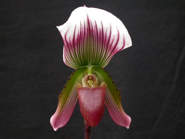 Paphiopedilum